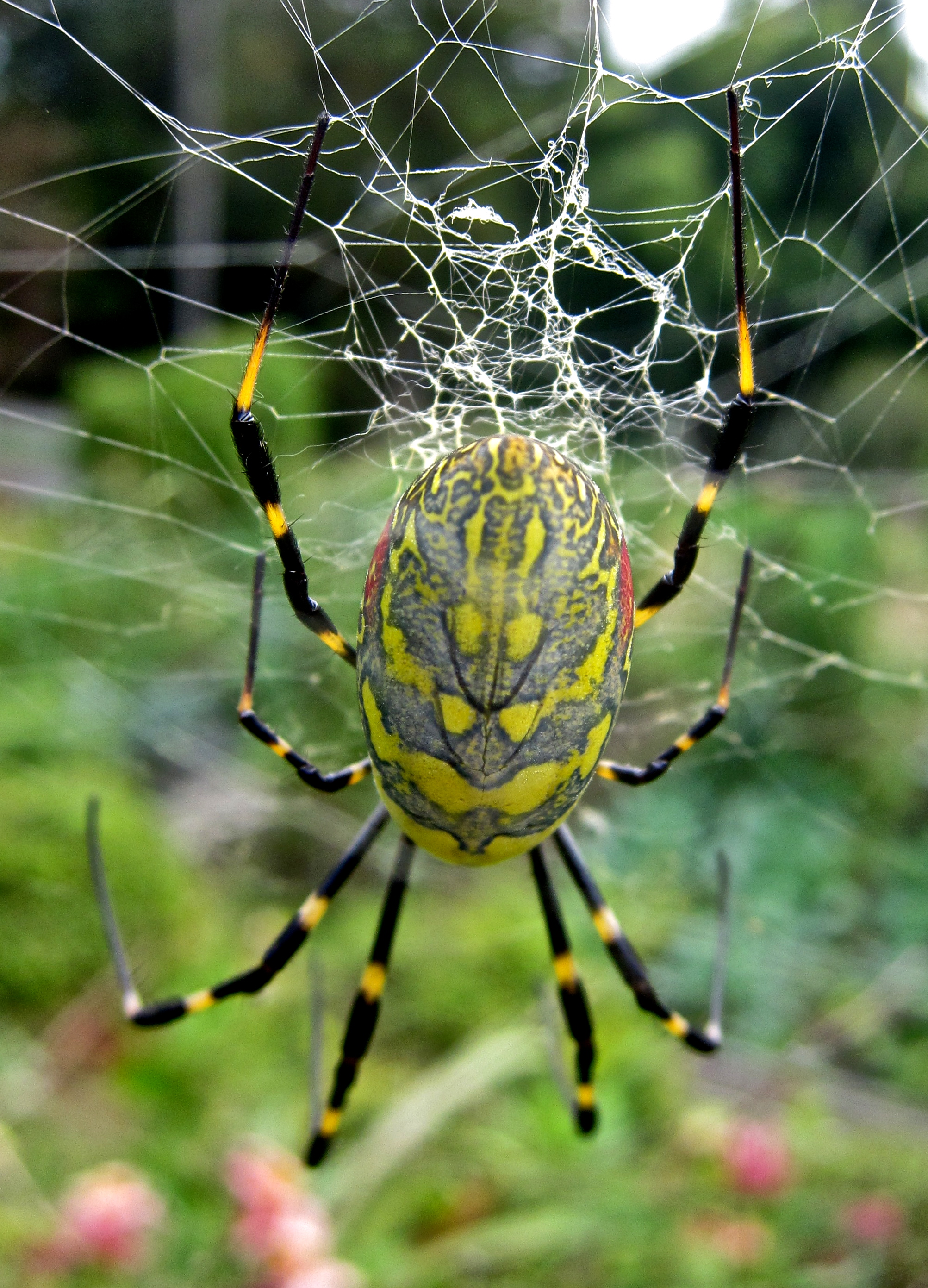 Nephila clavata, also known as the Jorō Spider (ジョロウグモ（女郎蜘蛛、上臈蜘蛛） Jorō-gumo?), is a member of the golden orb-web spider group. The spider can be found throughout Japan except Hokkaidō, in Korea, Taiwan and China. Due to the large size as well as the bright, unique colors of the species of the female Nephila, the spider is well-favored in Japan. The female's body size is 17–25 mm, while the male's is 7–10 mm. After mating the female spins an egg sack on a tree, laying 400 - 1500 eggs in one sack. Nephila clavata pass winter as eggs and scatter as tiny juveniles in the spring. The life cycle ends by late autumn or early winter. Jorōgumo is a legendary creature in Japanese folklore. A Jorōgumo is a spider which can change its appearance into that of a beautiful woman. She attracts men, and once a man has been trapped as a result of her seduction, he will be tied up and eaten by her. Source: Wikipedia